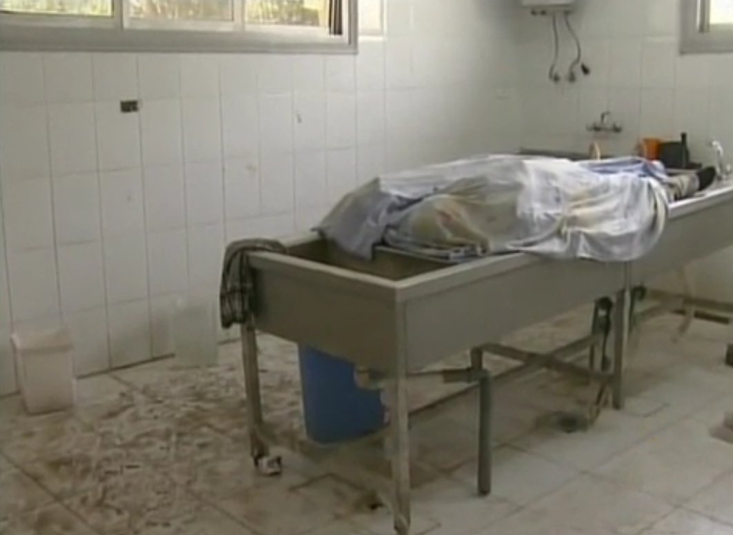 One of the many casualties among the protesters of the en:2011 Egyptian protests